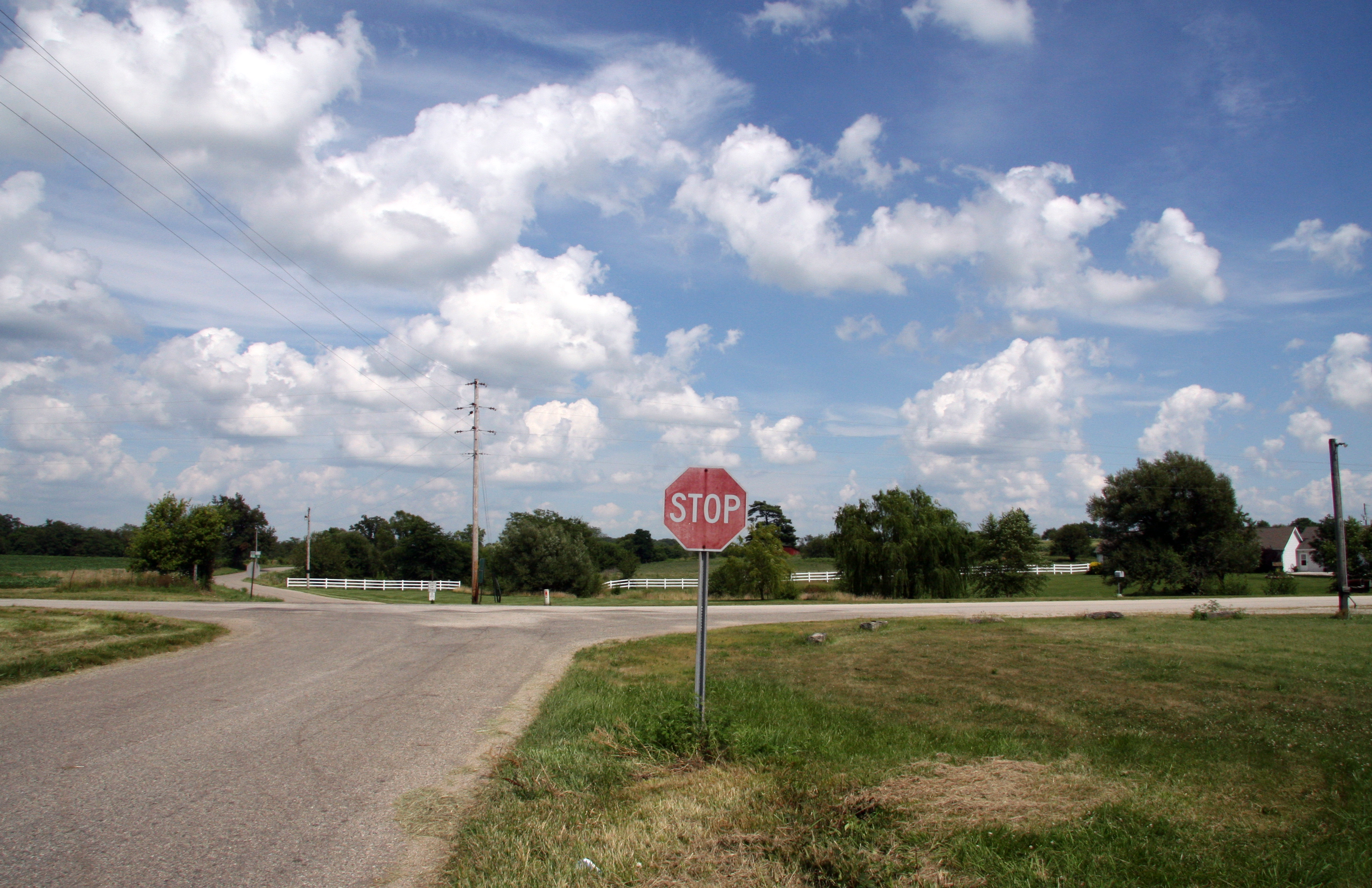 The site of the extinct town of Brisco, Indiana. Photo looks east toward the intersection of Indiana State Road 141 and Warren County Road 650 North.